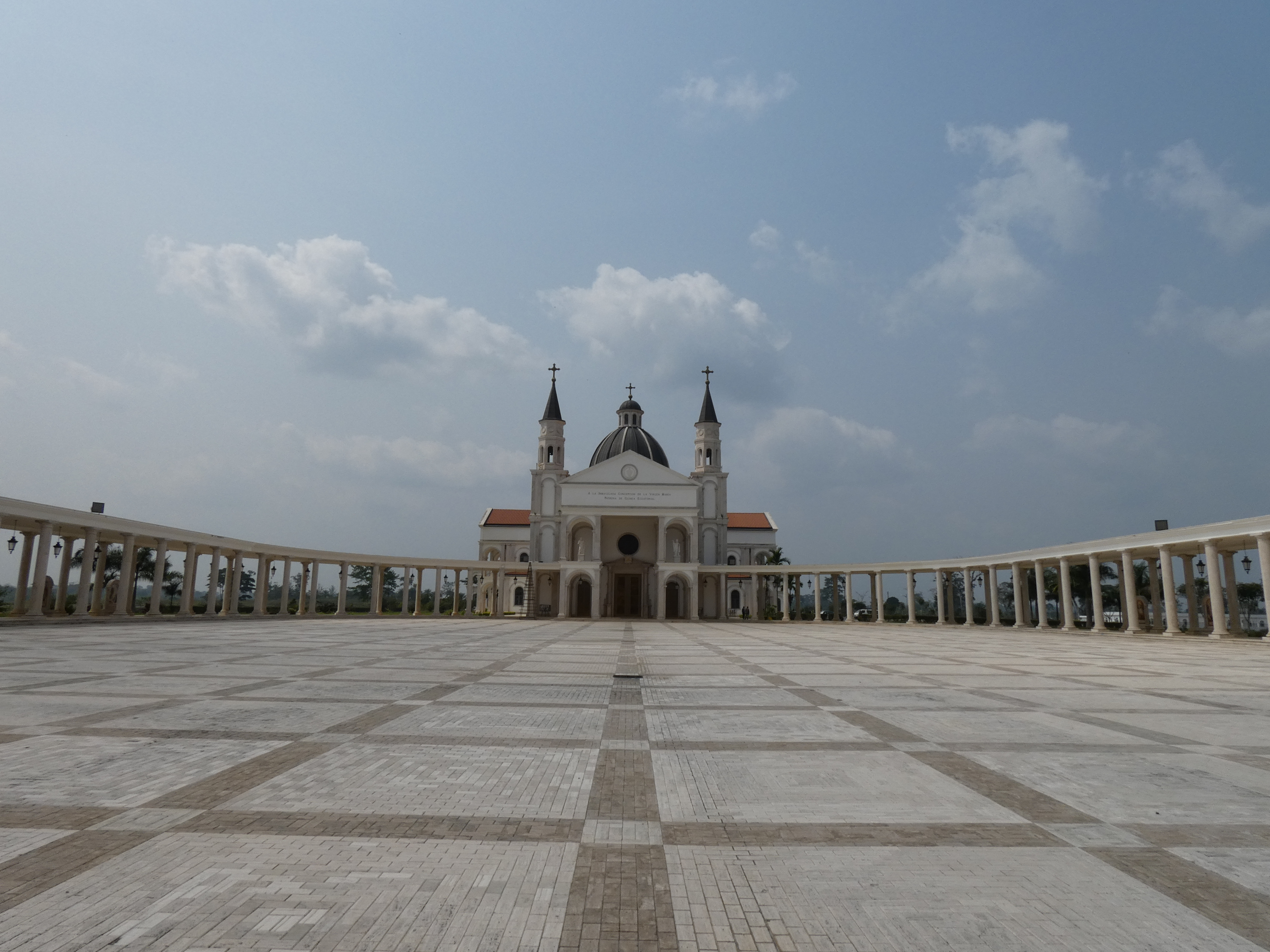 Basilica of the Immaculate Conception, Mongomo, main facade